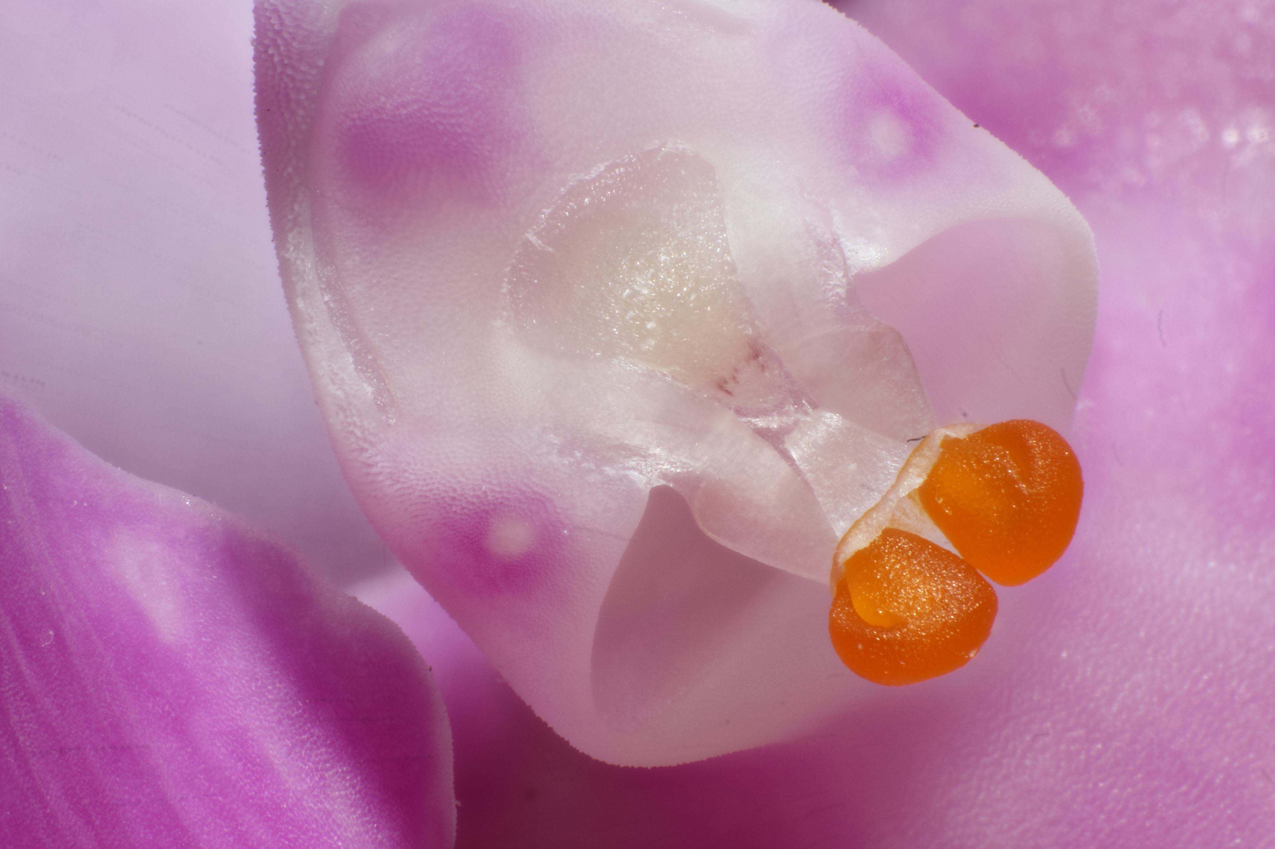 Phalenopsis Regnier (Hybrid lueddemanniana x scilleriana) anther pollen masses